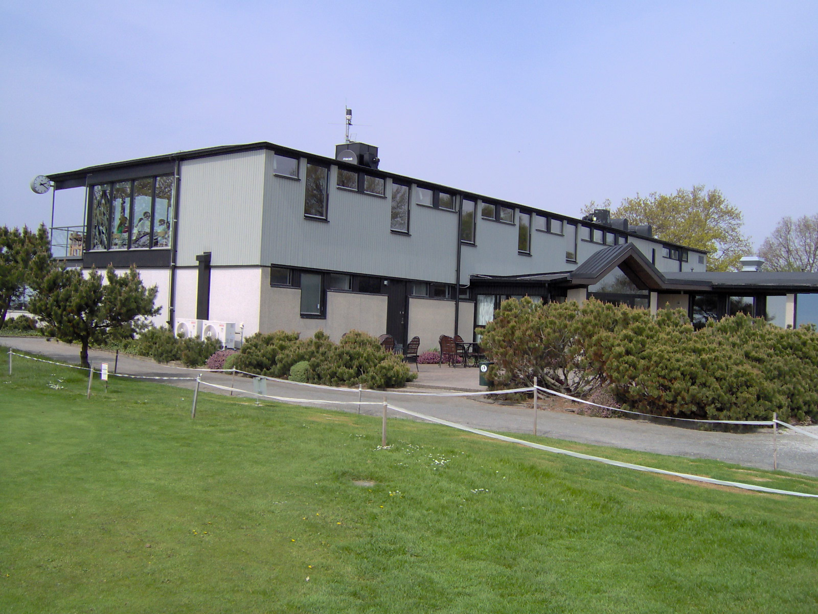 Clubhouse at Ljunghusen golfclub Source: taken by user may 22nd 2005